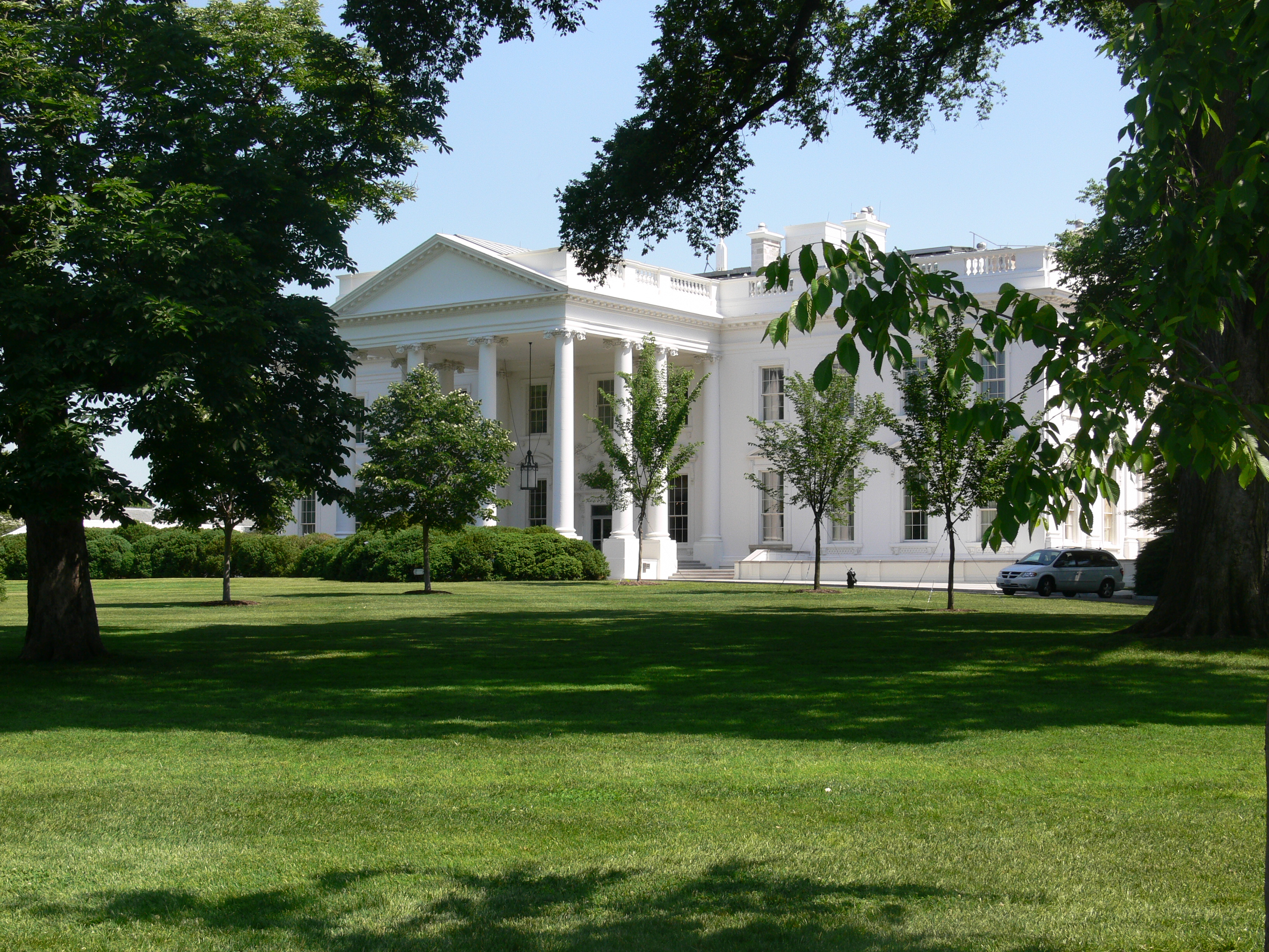 The White House, Washington, D.C.